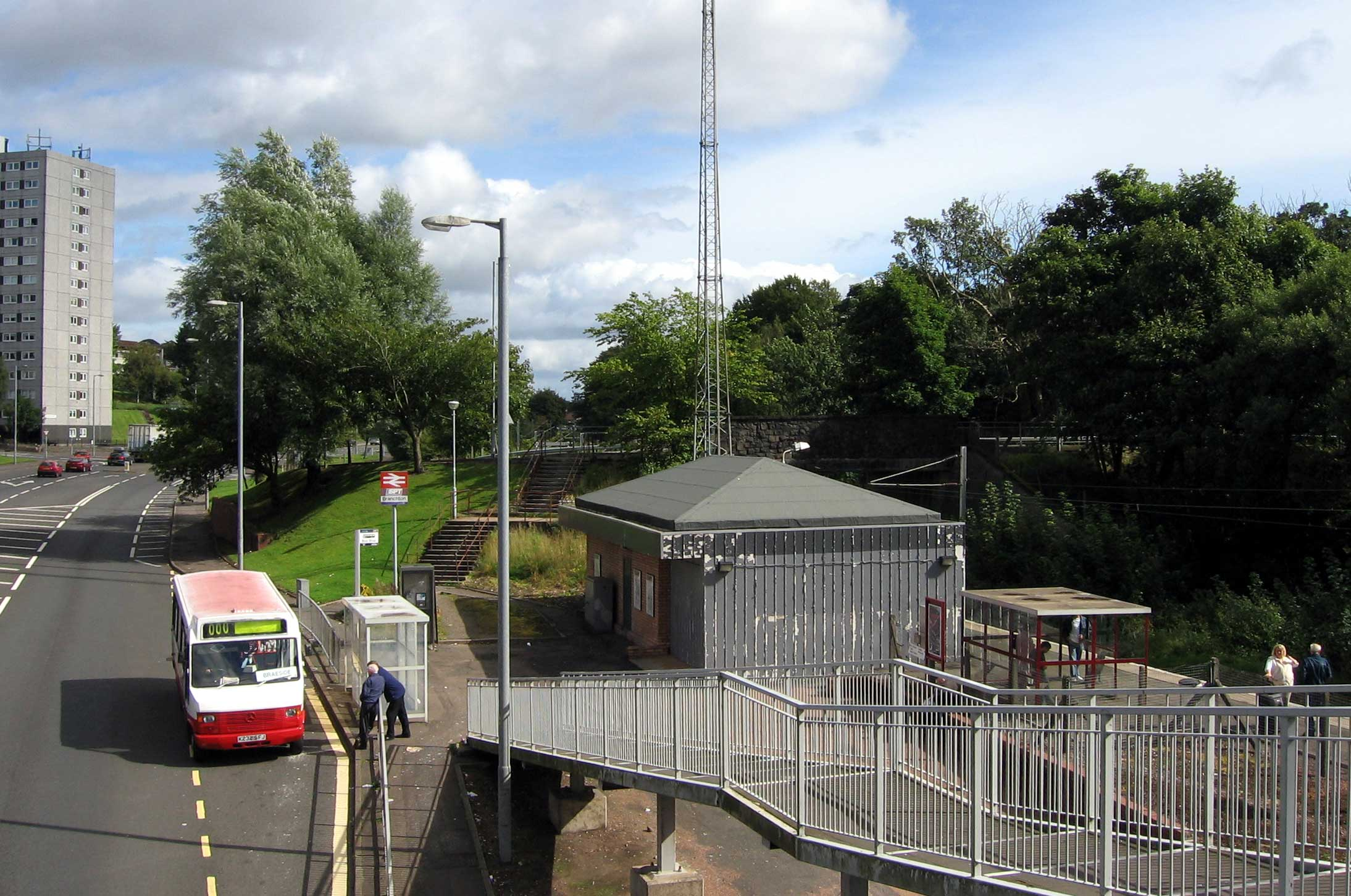 Branchton railway station lies on the edge of the Branchton area of Creenock, Scotland. View from the footbridge across the main road south to Inverkip, looking north towards Greenock town centre.